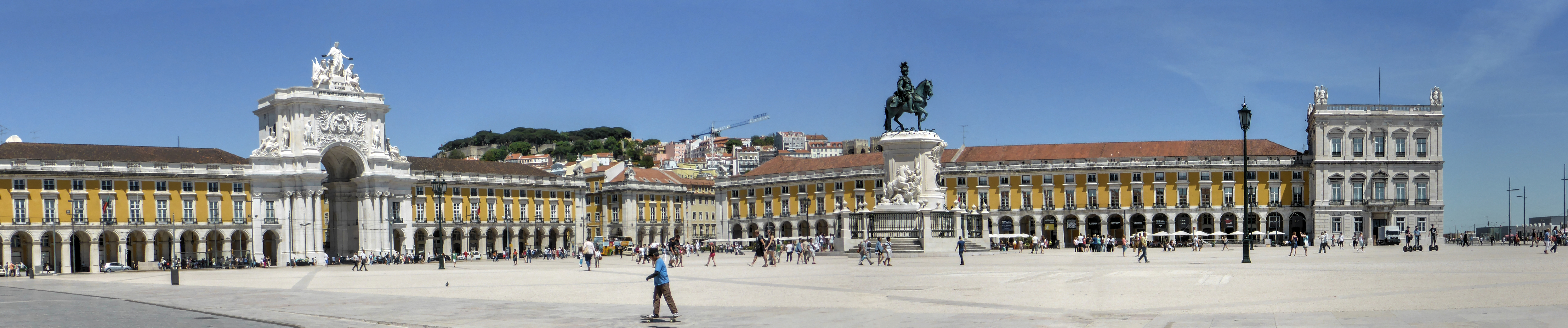 Praça do Comércio Central and North wing